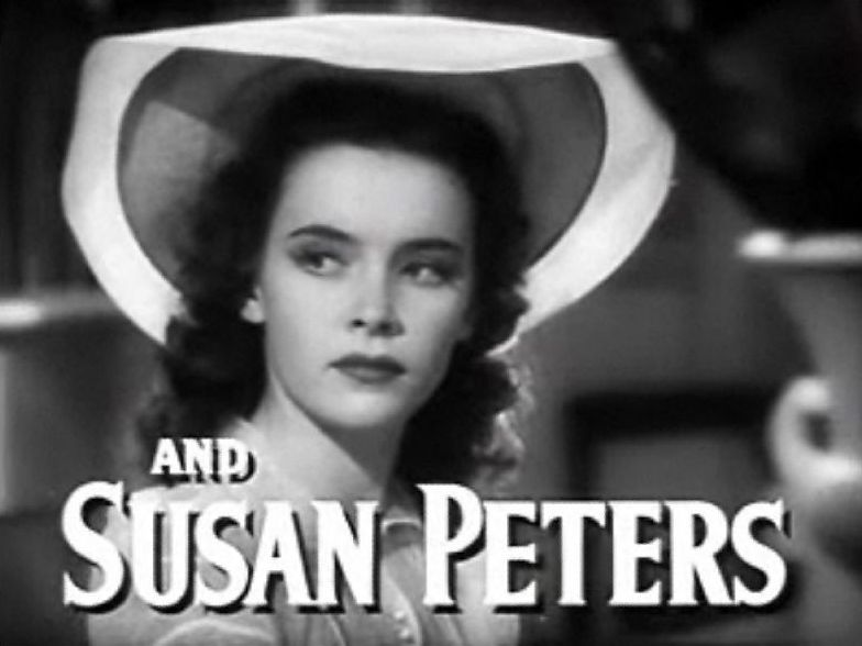 Screenshot of Susan Peters from the trailer for the film Tish